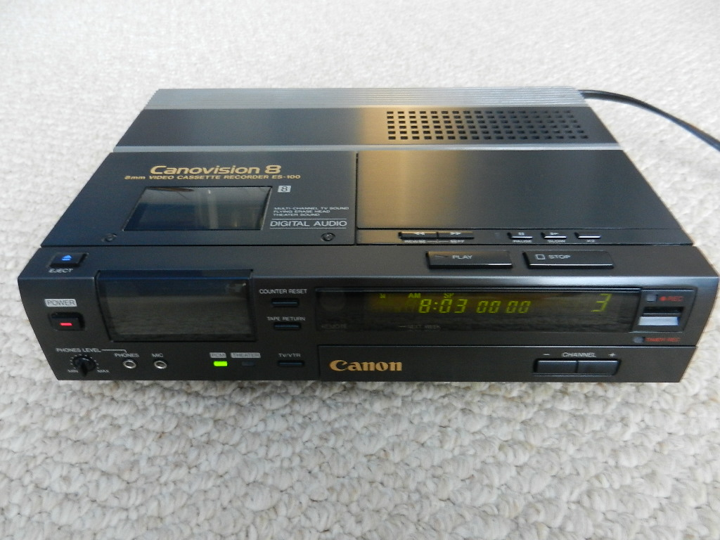 This is the Cannon ES-100A, which is simply a re-branded Sony EV-S1. The Sony EV-S1 was one of the most high end Video 8 players of the late 80s. If featured digital PCM audio, Auto tracking, and even an optional carrying handle to complement Sony's new compact design.